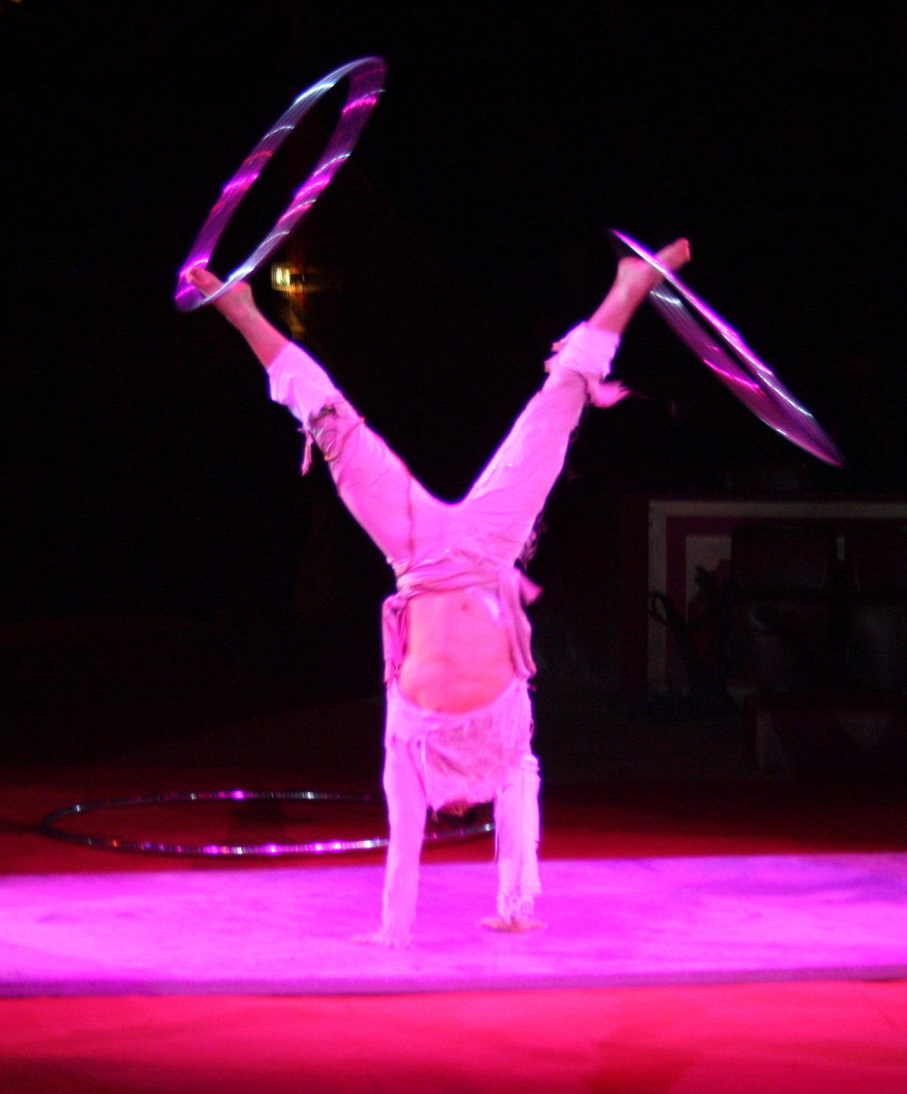 ANTON MONASTYRSKY quick Hula-Hoop-Spiel in Russia.